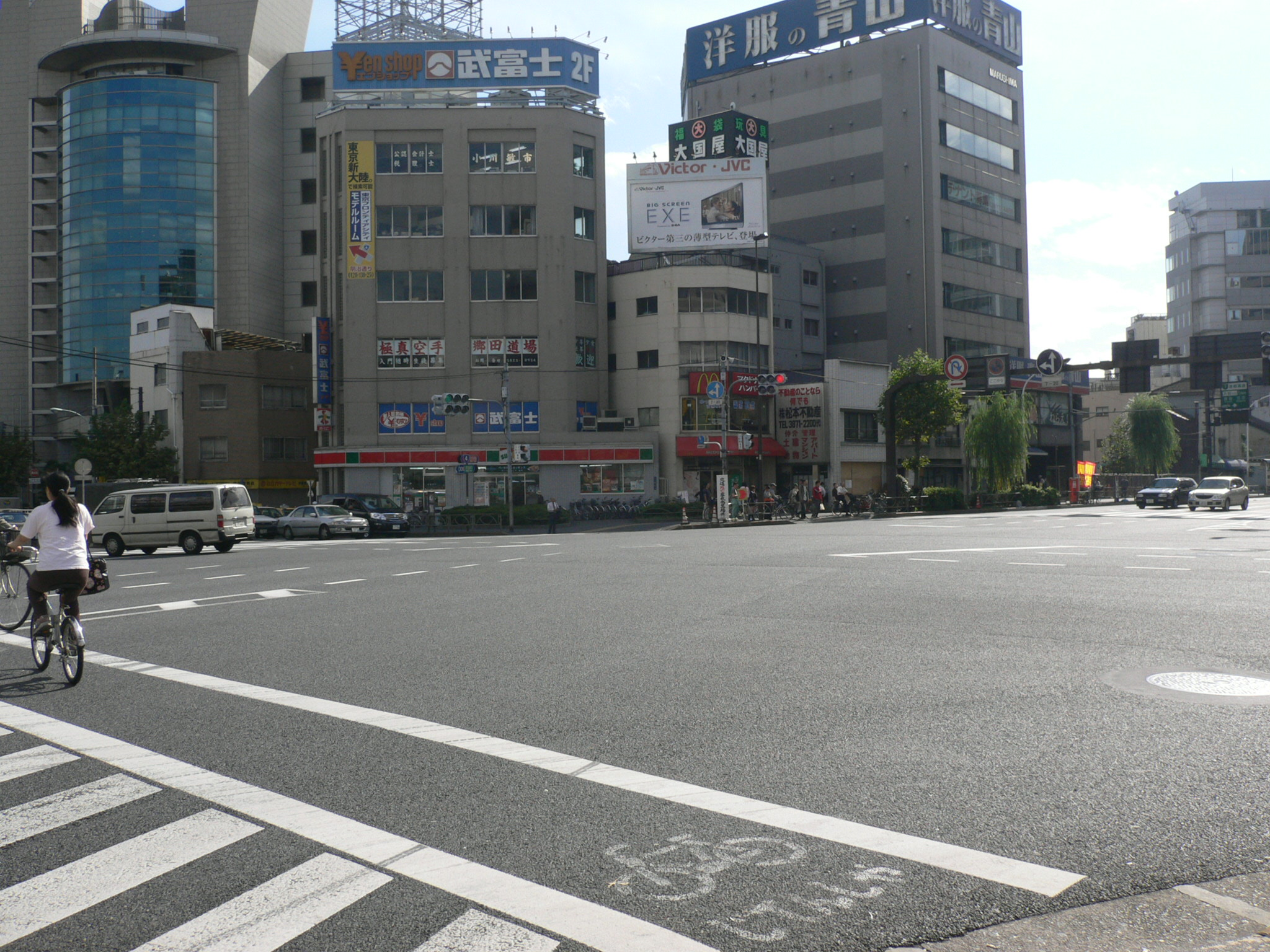 Minowa (日光街道・明治通り), Arakawa W, Tokyo M.